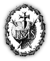 Engraved print of 19th cent. with the coat of arms of the Order of the Visitation, founded in 1610 by St. Francis of Sales and St. Joan of Chantal